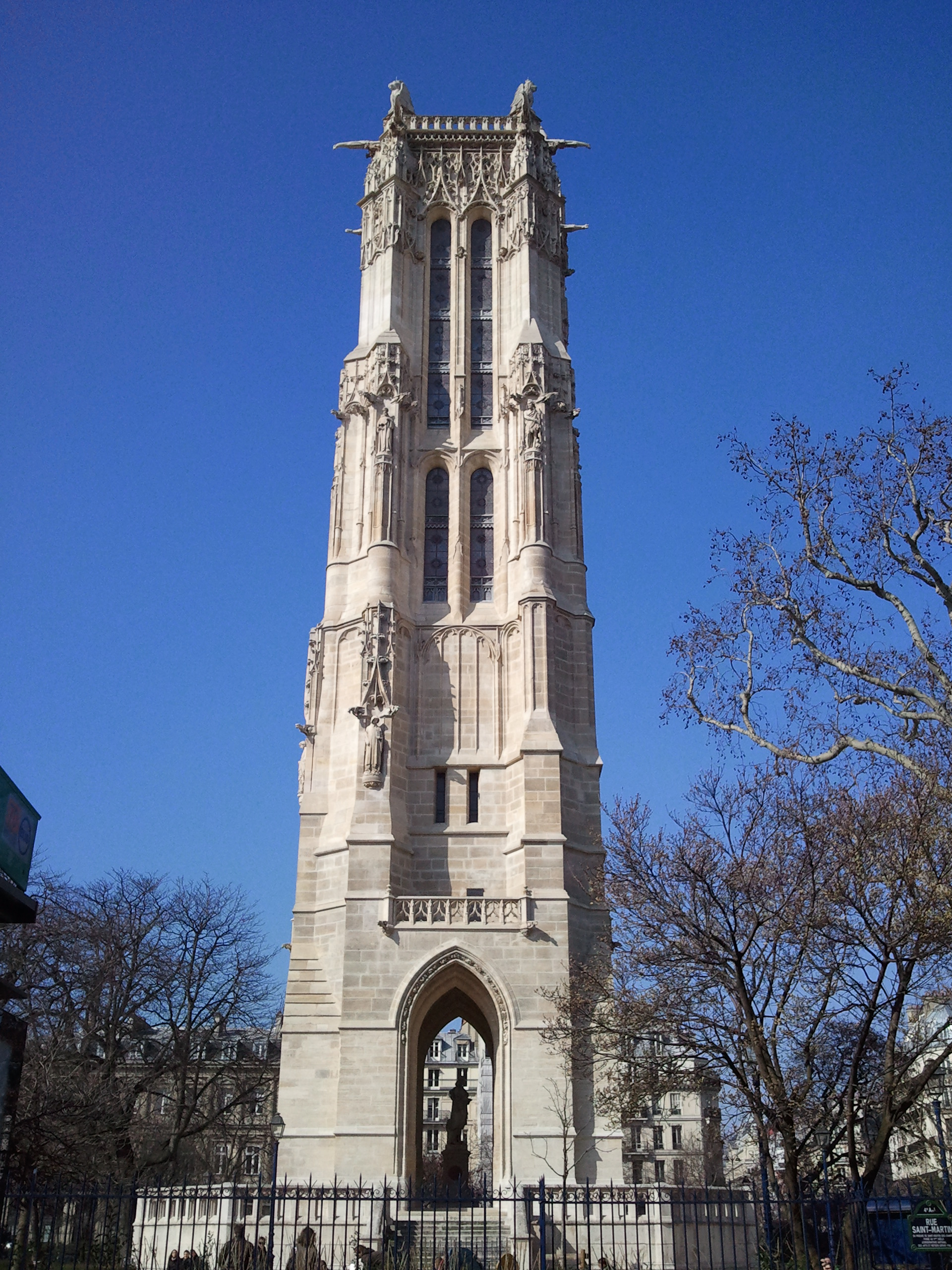 Paris, Saint-James's Tower, 1508-22